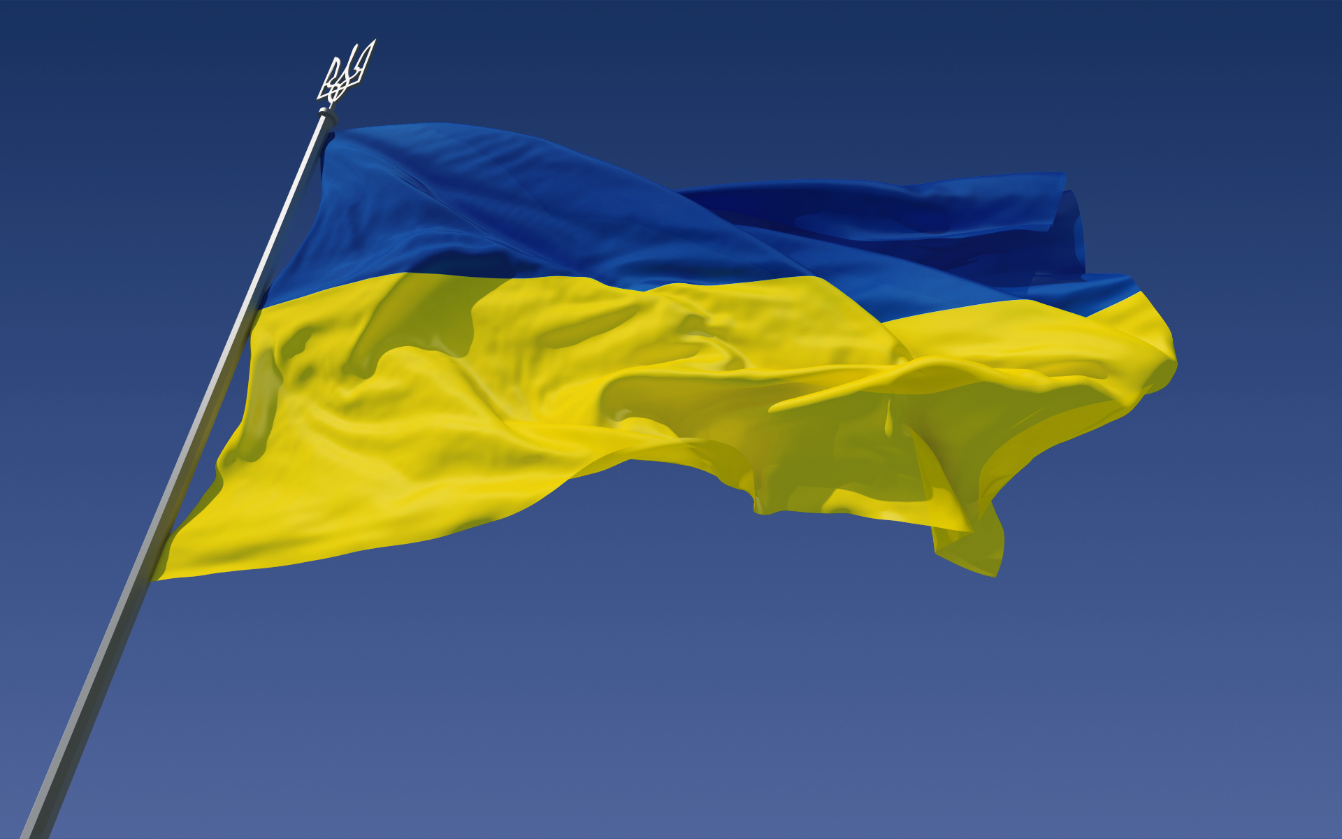 Flag of UkraineAccording to the Constitution of Ukraine the flag of Ukraine has dark blue and yellow colors. It is often mistranslated to blue (Ukrainian: блакитний) when it has to be dark blue (Ukrainian: синій) as per the Constitution of Ukraine.